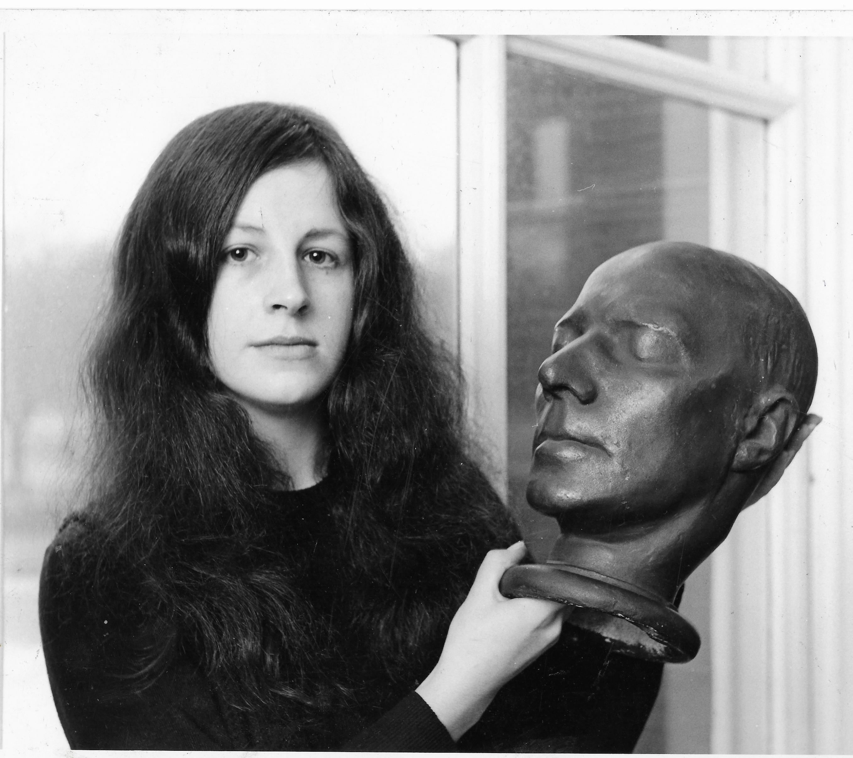 Dr Elspeth King, writer and curator, was born in Scotland and is known for her role as a museum curator at the Peoples Palace in Glasgow, and then with the Stirling Smith Art Gallery and Museum.